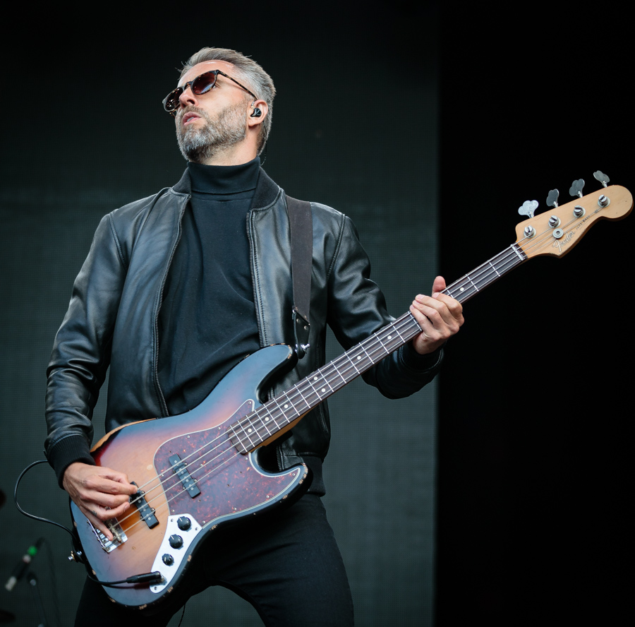 Johan Wohlert in a concert with MEW at the Vigeland stage in the Vigeland Park. The concert was part of Piknik i Parken and took place on 17. June 2018 in Oslo. Lineup:Jonas Bjerre (vocal and guitar)Johan Wohlert (bass guitar)Silas Utke Graae Jørgensen (drums)Nick Watts (keyboard)Mads Wegner (guitar)